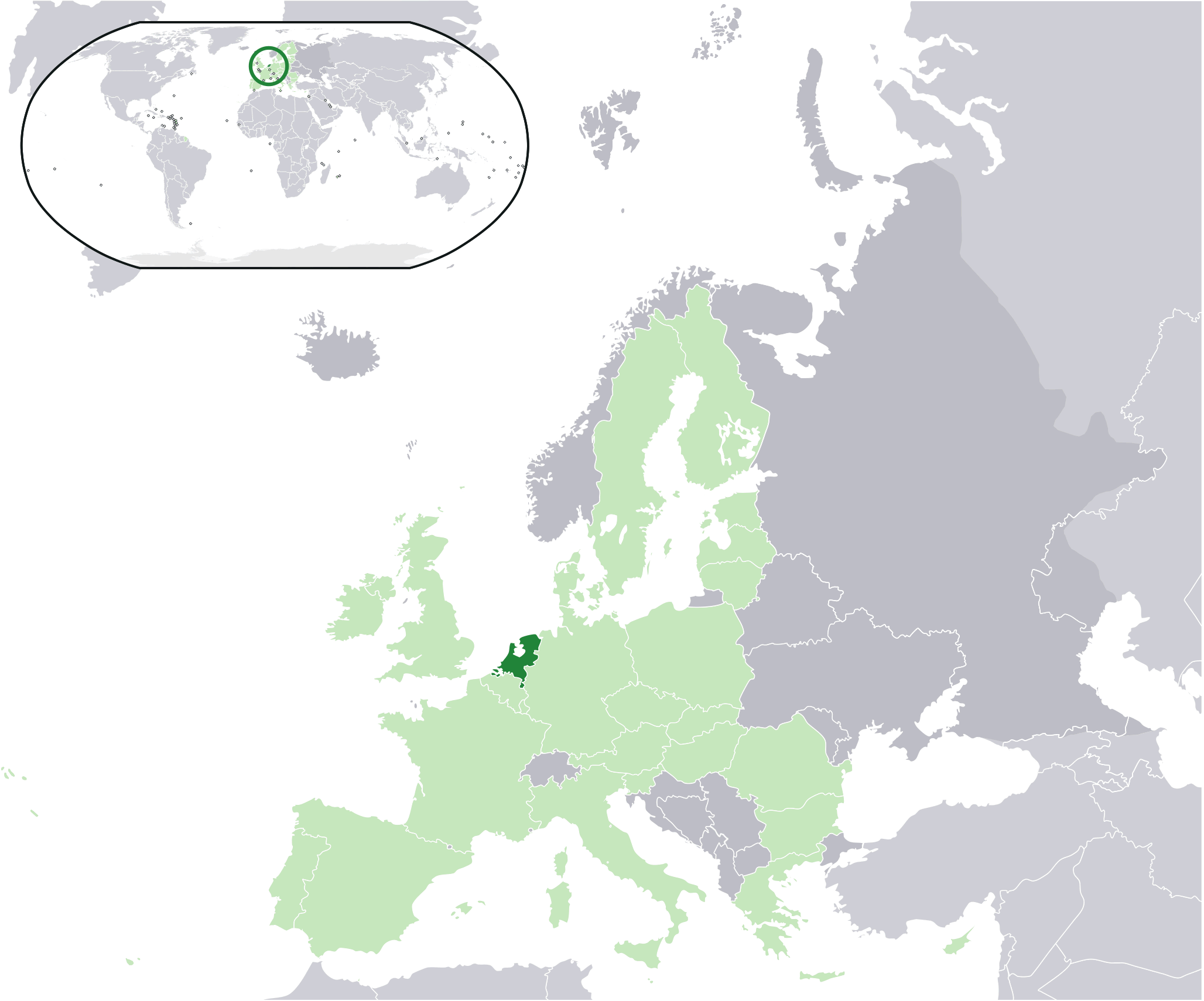 Location map: Netherlands (dark green) / European Union (light green) / Europe (dark grey); inspired by and consistent with general country locator maps by User:Vardion, et al.